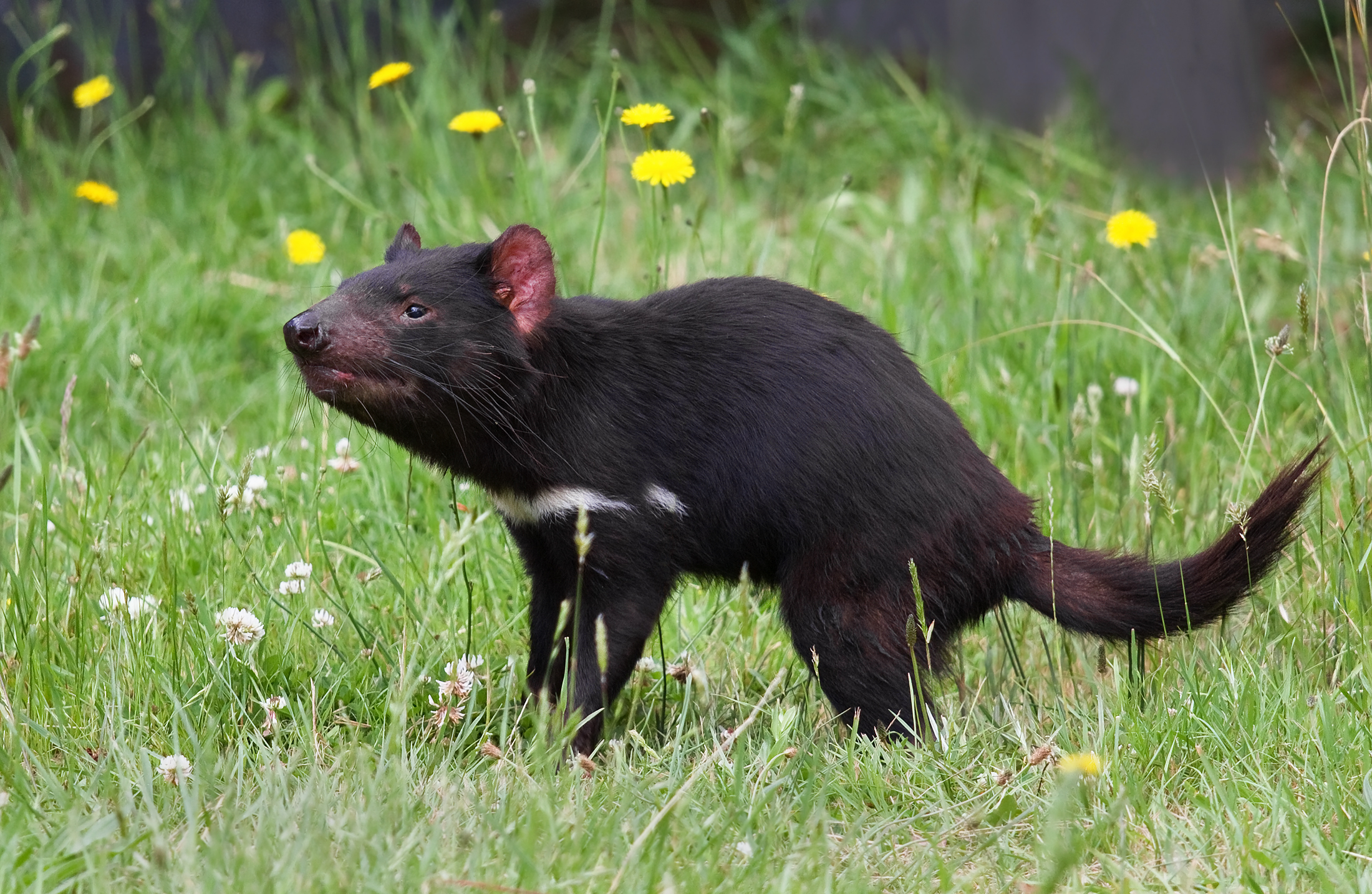 Tasmanian Devil (Sarcophilus harrisii), Tasmanian Devil Conservation Park, Taranna, Tasmania, Australia